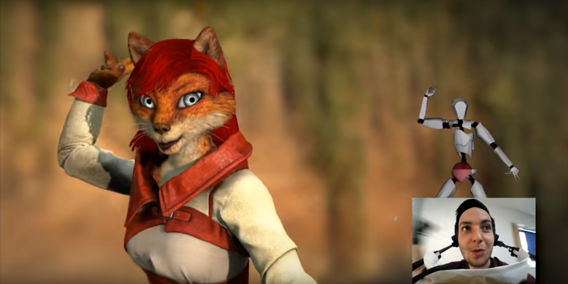 FaceRig avatar with full body and face tracking in real time